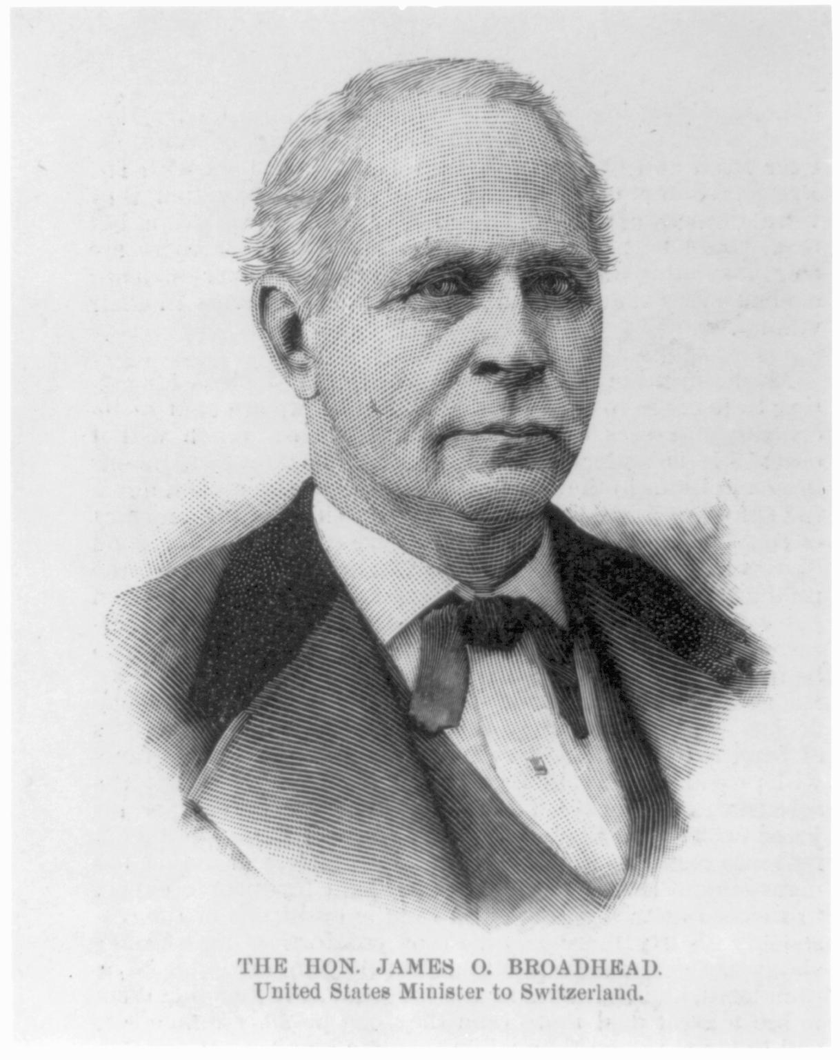 James O. Broadhead, U.S. Congressman from Missouri (1882-1885), U.S. Minister to Switzerland (1893-1897), and first Presient of the American Bar Association